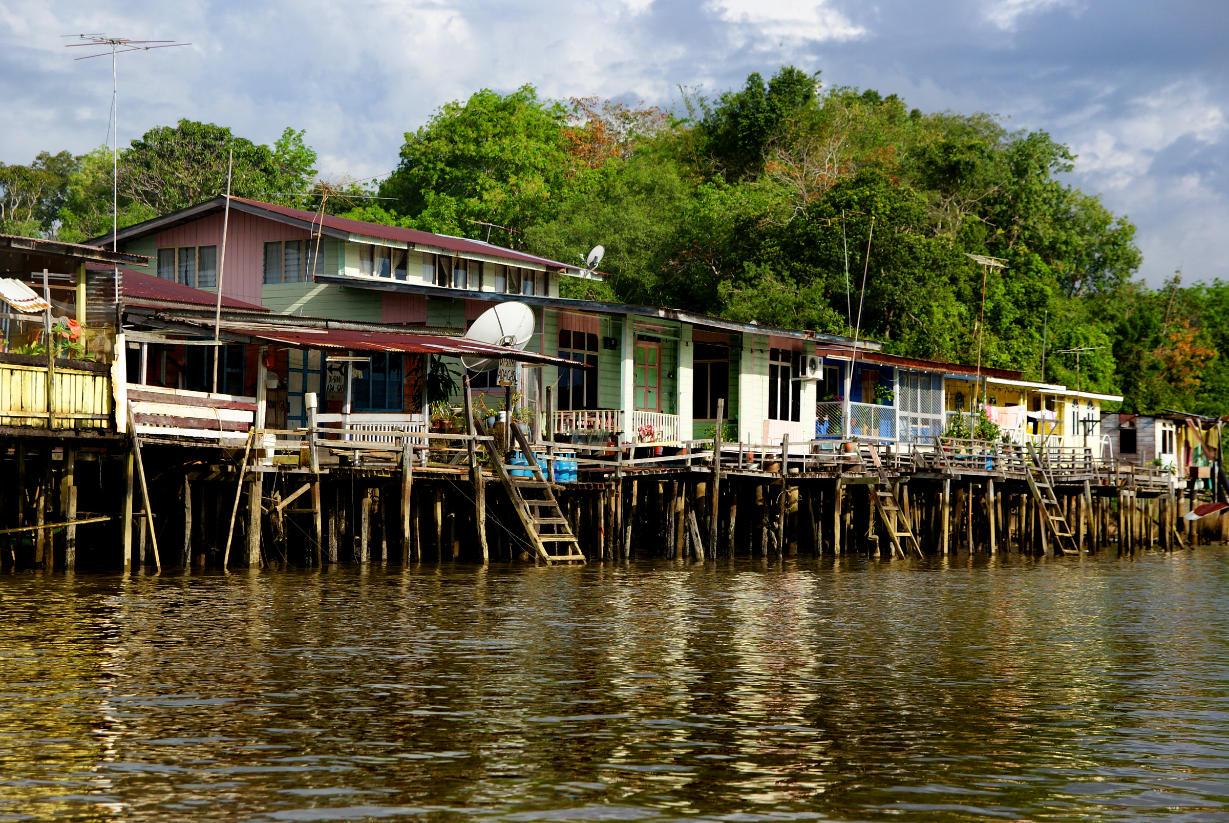 Home to around 30,000 people, Kampong Ayer consists of 42 contiguous stilt villages built along the banks of the Sungai Brunei. A century ago, half of Brunei's population lived here, and even today many Bruneians still prefer the lifestyle of the water village to residency on dry land. The village has its own schools, mosques, police stations and fire brigade. To get across the river, just stand somewhere a water taxi can dock and flag one down (the fare is B$1). Founded at least 1000 years ago, the village is considered the largest stilt settlement in the world. When Venetian scholar Antonio Pigafetta visited Kampong Ayer in 1521, he dubbed it the 'Venice of the East', which is, as descriptions go, a bit ambitious. The timber houses, painted sun-bleached shades of green, blue, pink and yellow, have not been done-up for tourists, so while it's far from squalid, be prepared for rubbish that, at low tide, carpets the intertidal mud under the banisterless boardwalks, some with missing planks. Read more